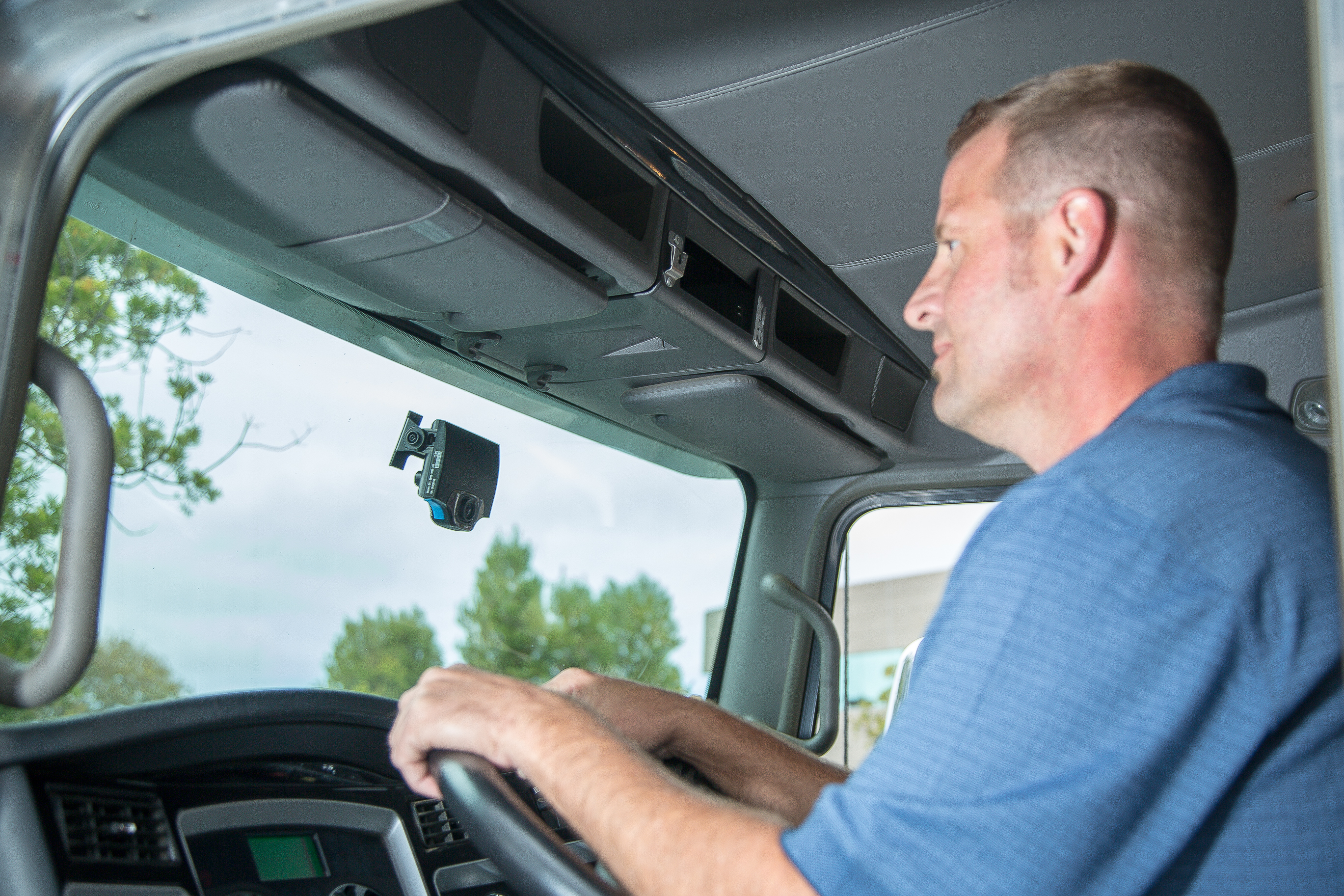 Lytx's DriveCam product is mounted on the truck's windshield.